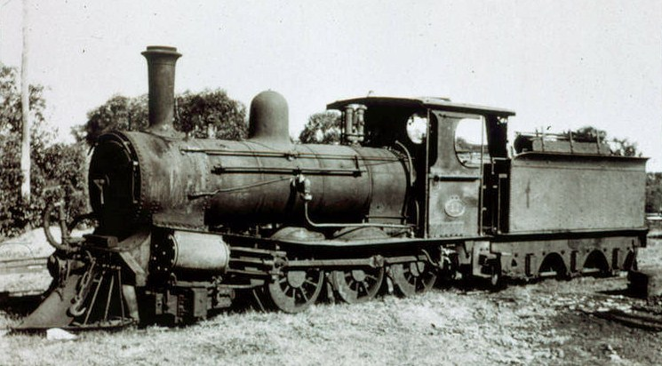 A three quarter view of WAGR A class steam locomotive no. 11, with the tender from no. 16, at Midland Junction, Western Australia.Some of the information provided here about the image, including the identity of the author and the date of the work, is obtained from Gunzburg, Adrian (1984). A History of WAGR Steam Locomotives. Perth: Australian Railway Historical Society (Western Australian Division), p. 22. ISBN 0959969039.